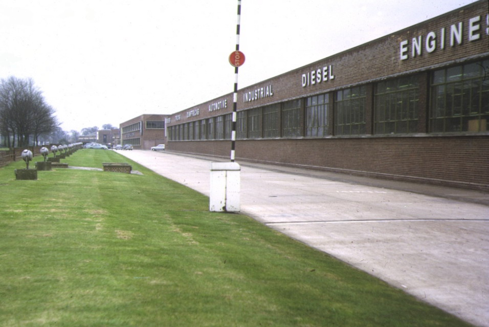 AEC Southall Works from south of the Iron Bridge, 1973.